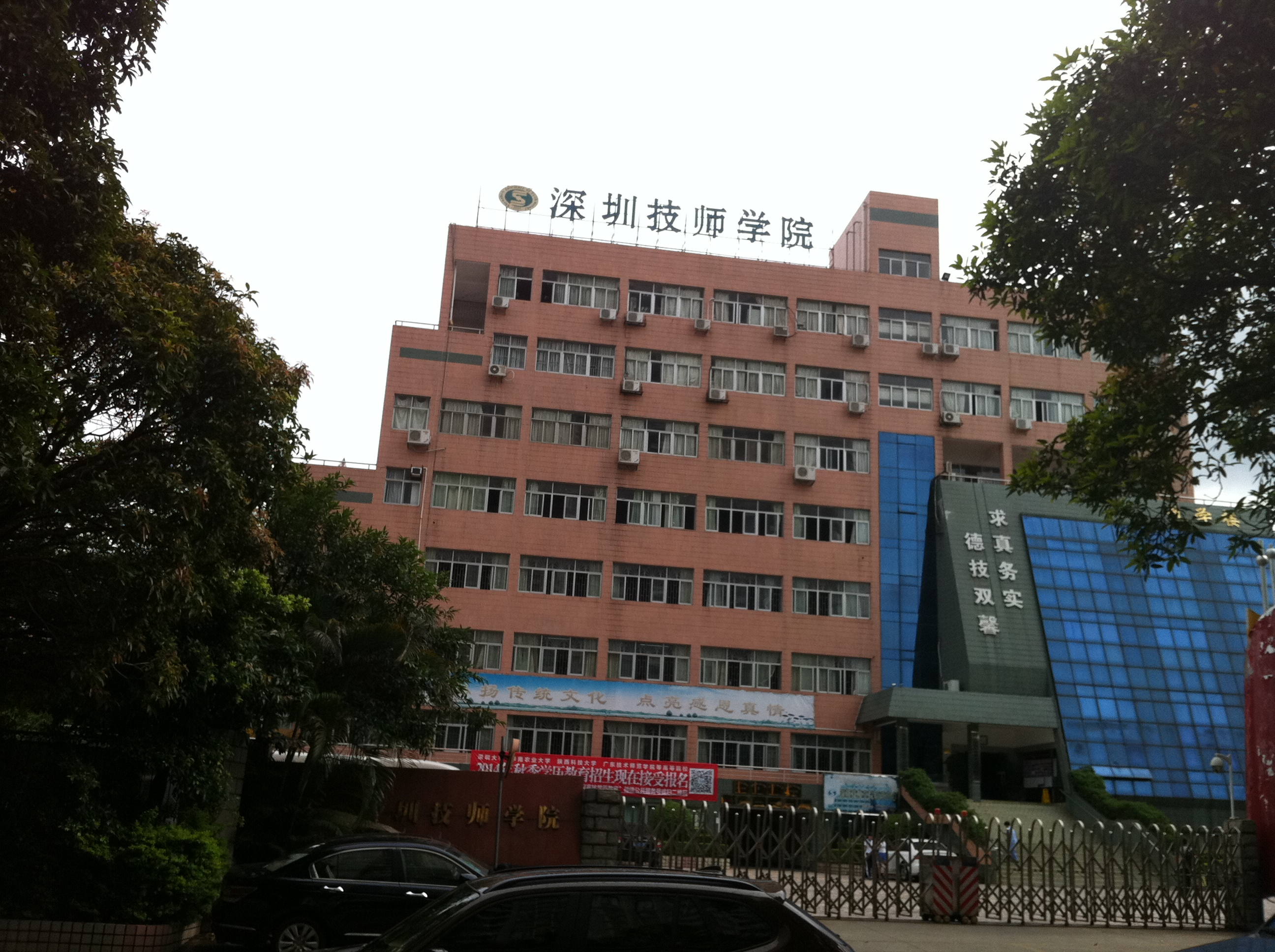 Shenzhen Institute of Technology (West Division)